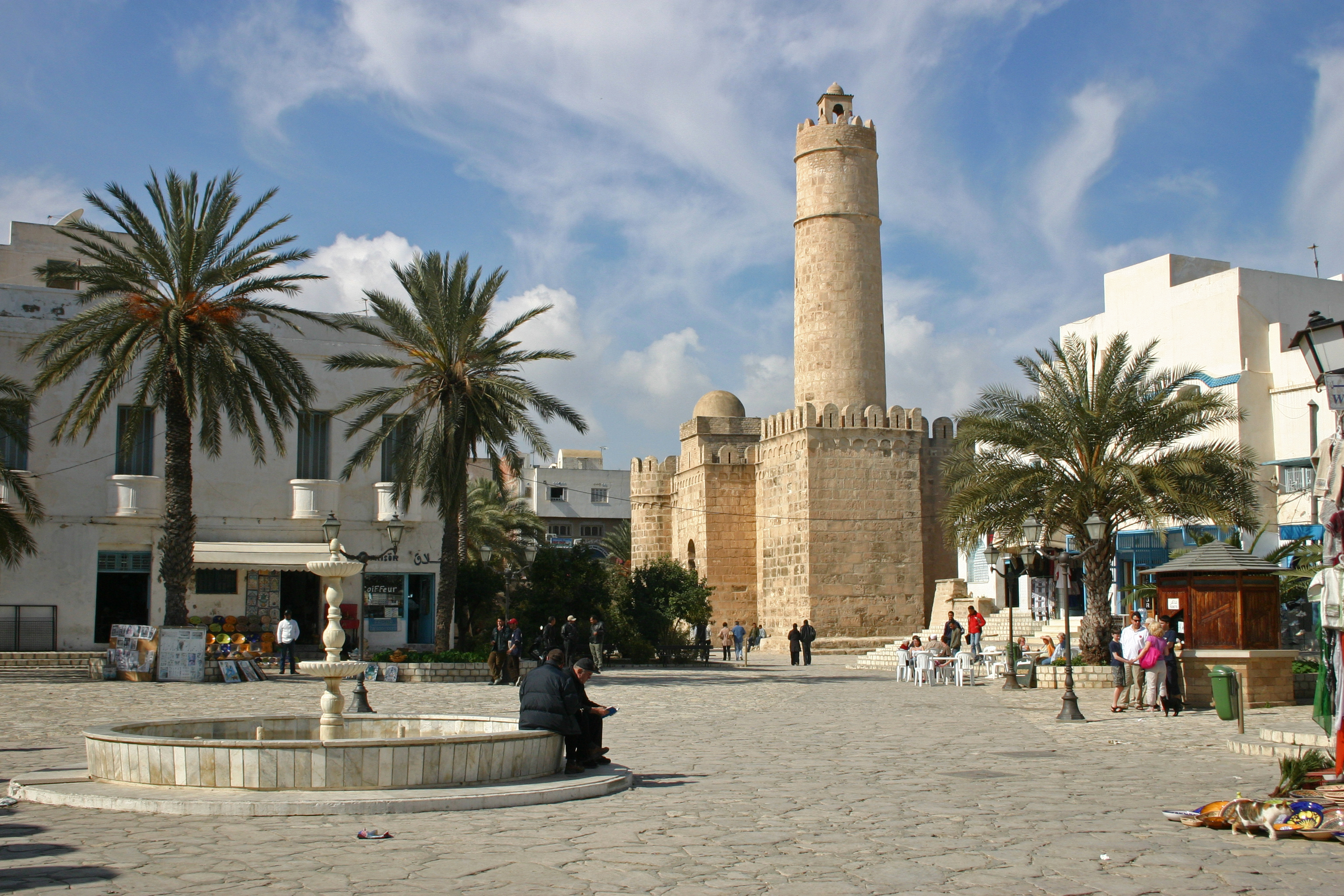 The Ribat at Sousse